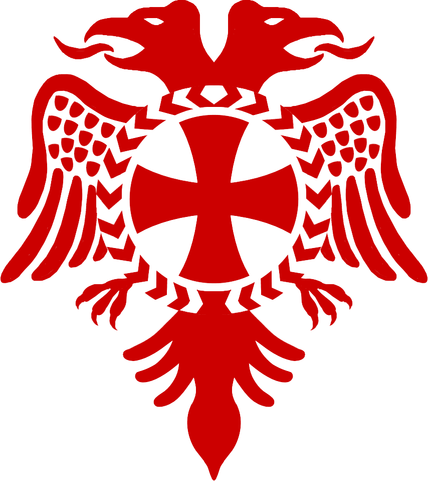 Alternate Emblem of the Orthodox Autocephalous Church of Albania